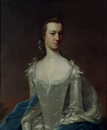 18th-century portrait by Edmund Fanning of Margaret Wake Tryon, the wife of Governor William Tryon.